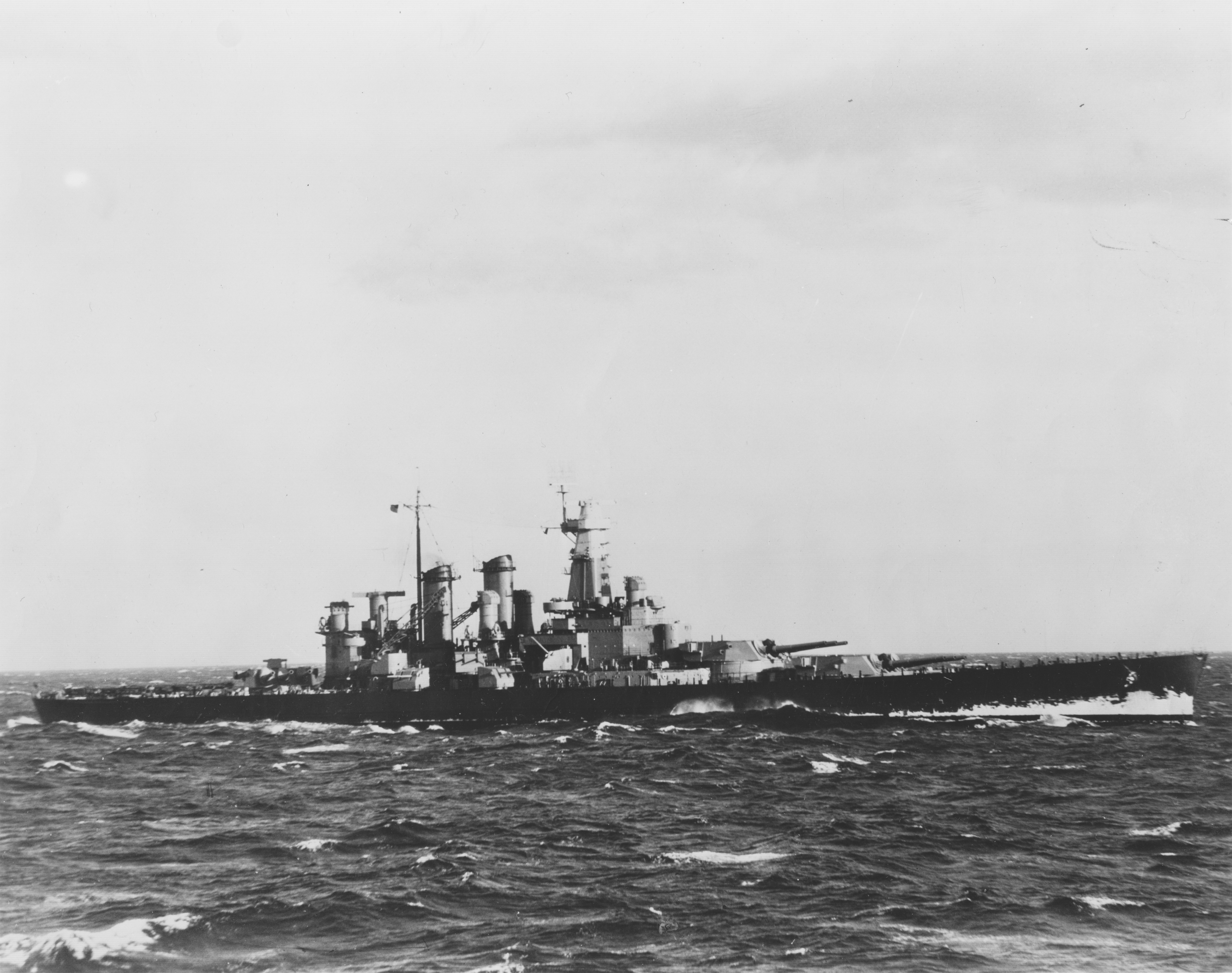 The USS North Carolina in 1941. Box: 19LCM, BB-55 to BB-56; Folder: AN 41 230 MS-12; separate photo in same folder as two AN 41 230 prints